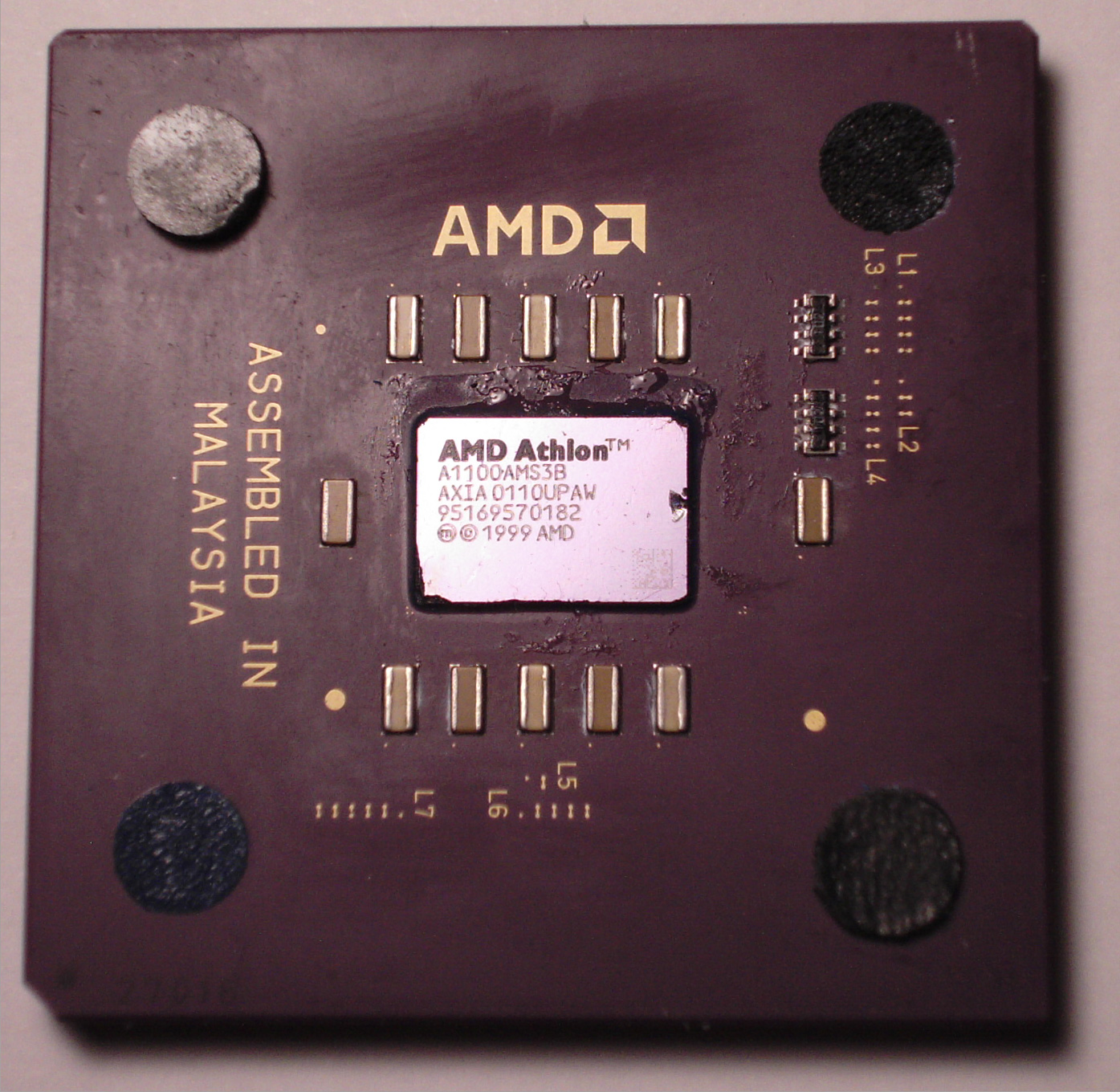 An AMD-processor Athlon 1.1Ghz Thunderbird.